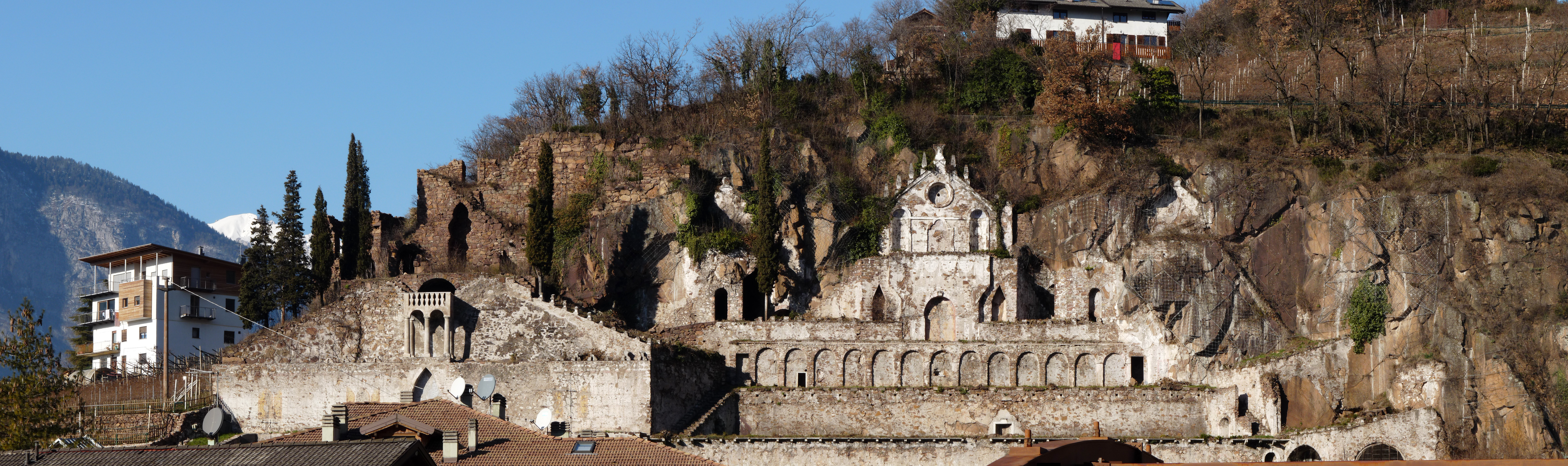 Lavis (Italy): panorama of Giardino dei Ciucioi (Ciucioi garden) from south